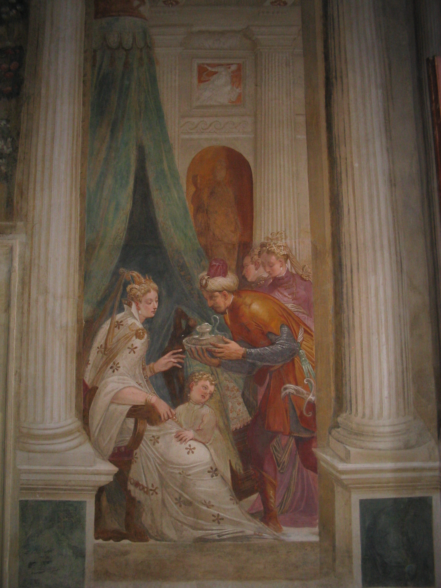 Villa Caldogno (Caldogno, Province of Vicenza). Frescos of the left wing by Giovanni Battista Zelotti (1526-1578), completed on or before 1570. "Stories of Sophonisba".